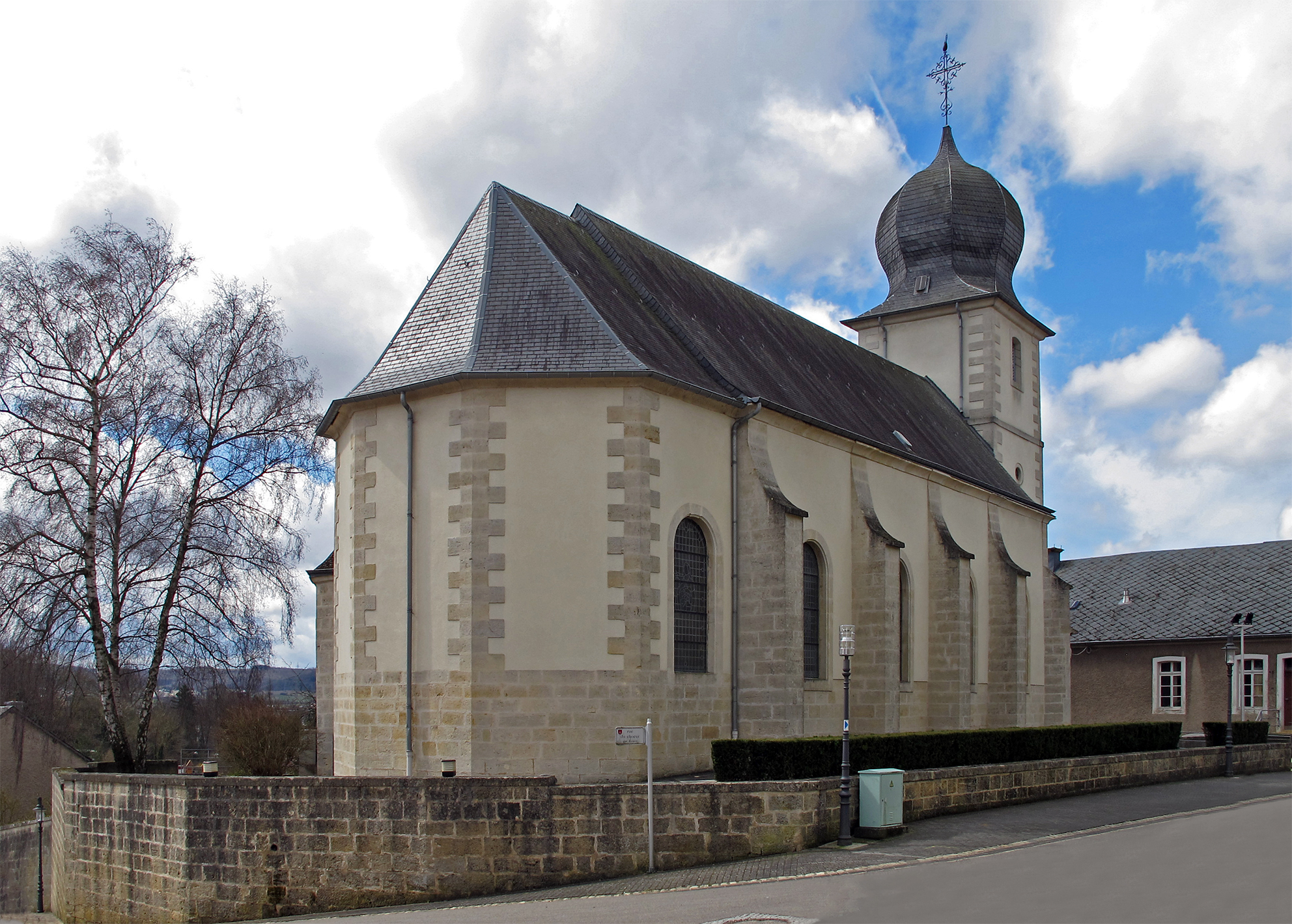 Church of Hautcharage, Luxembourg